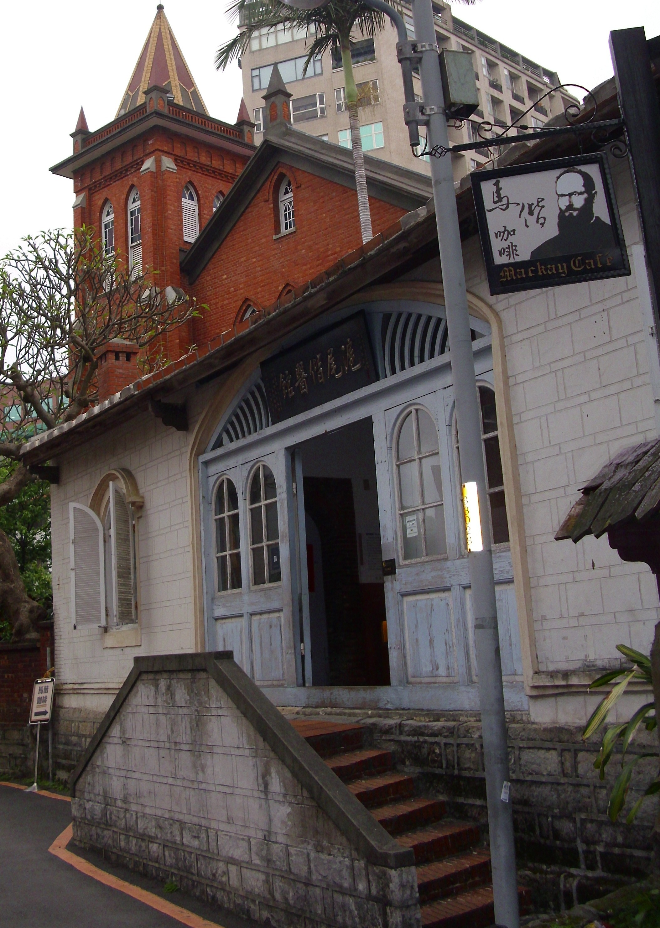 Mackay-Mission-Hospital and Danshuei Church